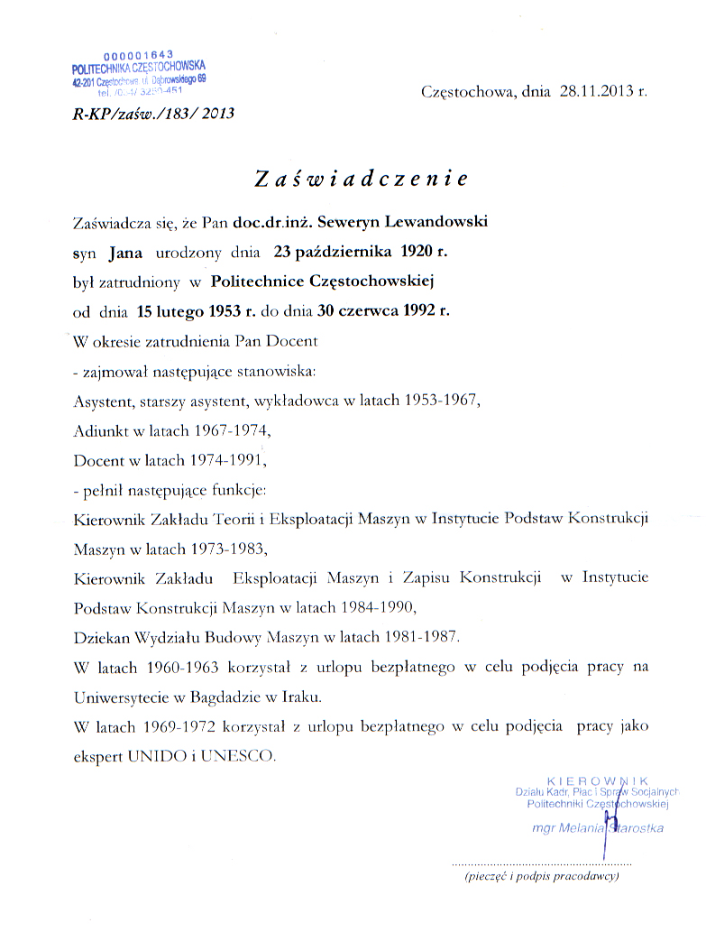 Employment Certificate at the Czestochowa University of Technology